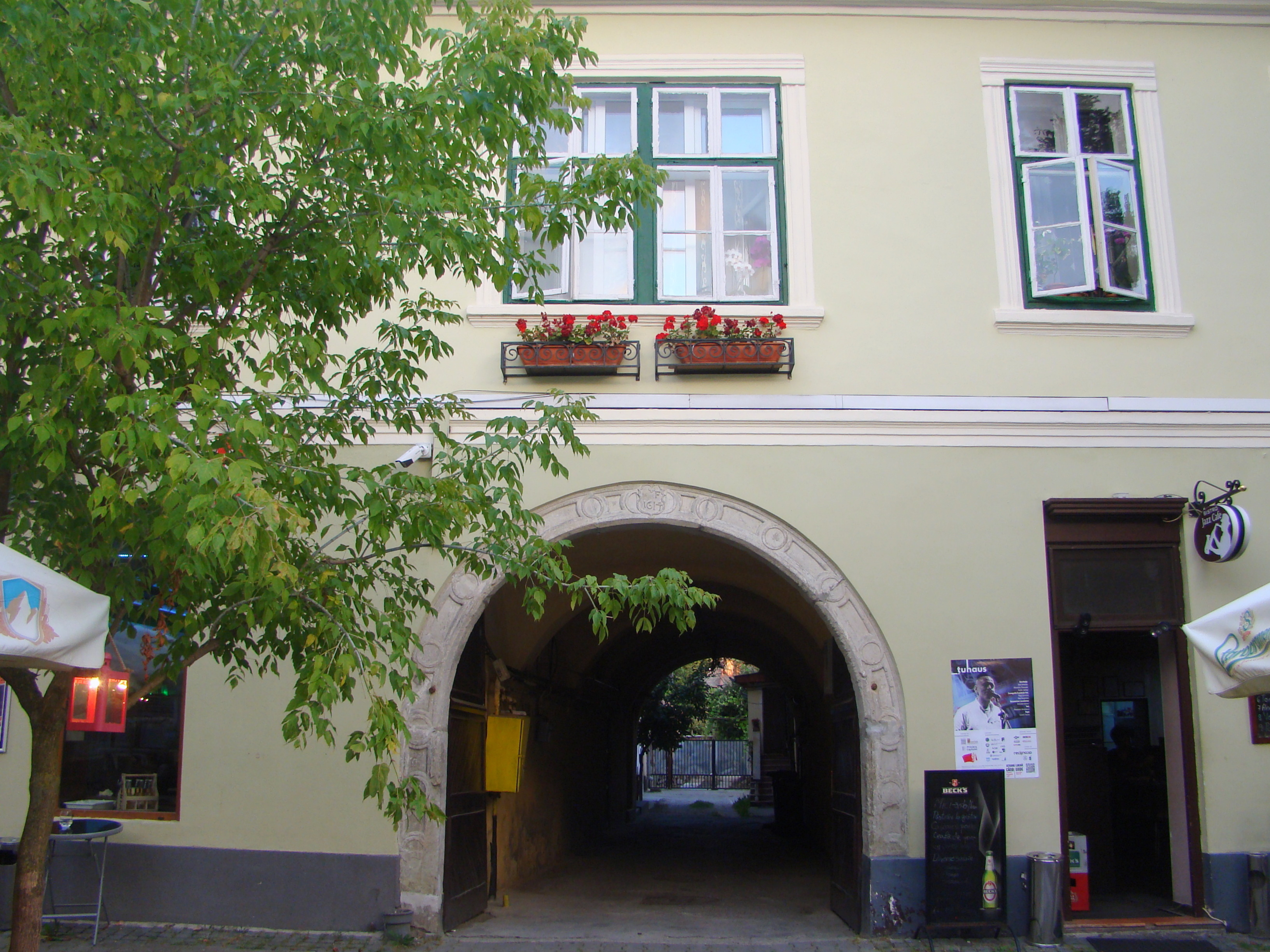 House, historic monument, in Bistrița, Liviu Rebreanu street 8-10